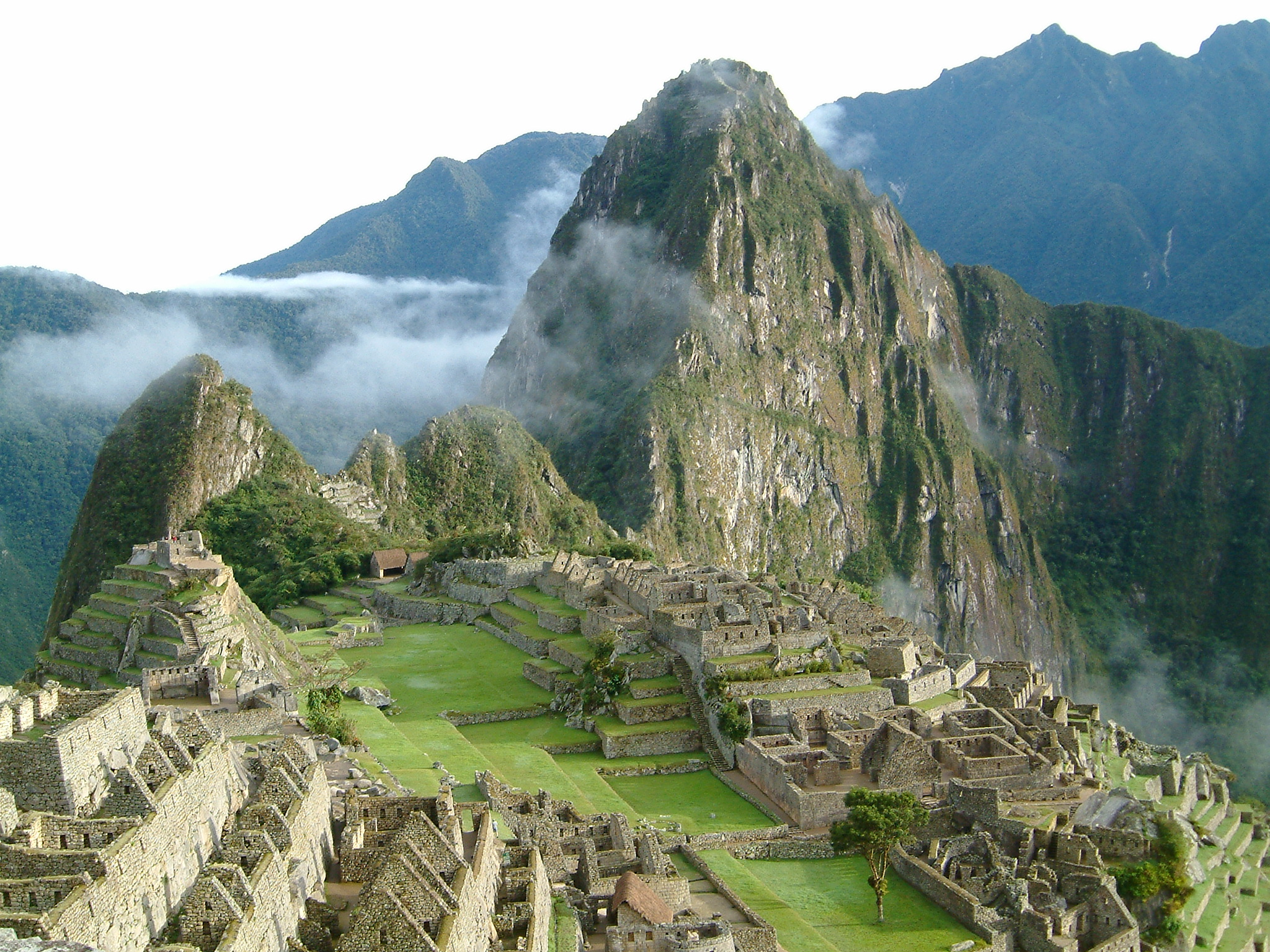 Allard Schmidt: "This picture was taken at sunrise, after hiking ahead of the group towards Machu Picchu I found Machu Picchu empty, Huayna Picchu was covered in clouds. After waiting 10 minutes the clouds dissolved beautifully resulting in this picture. Unfortunately, the moment the thin clouds covered Wayne Pichu was very short, there was no time to change the camera light exposure settings in order to correct the overexposure."